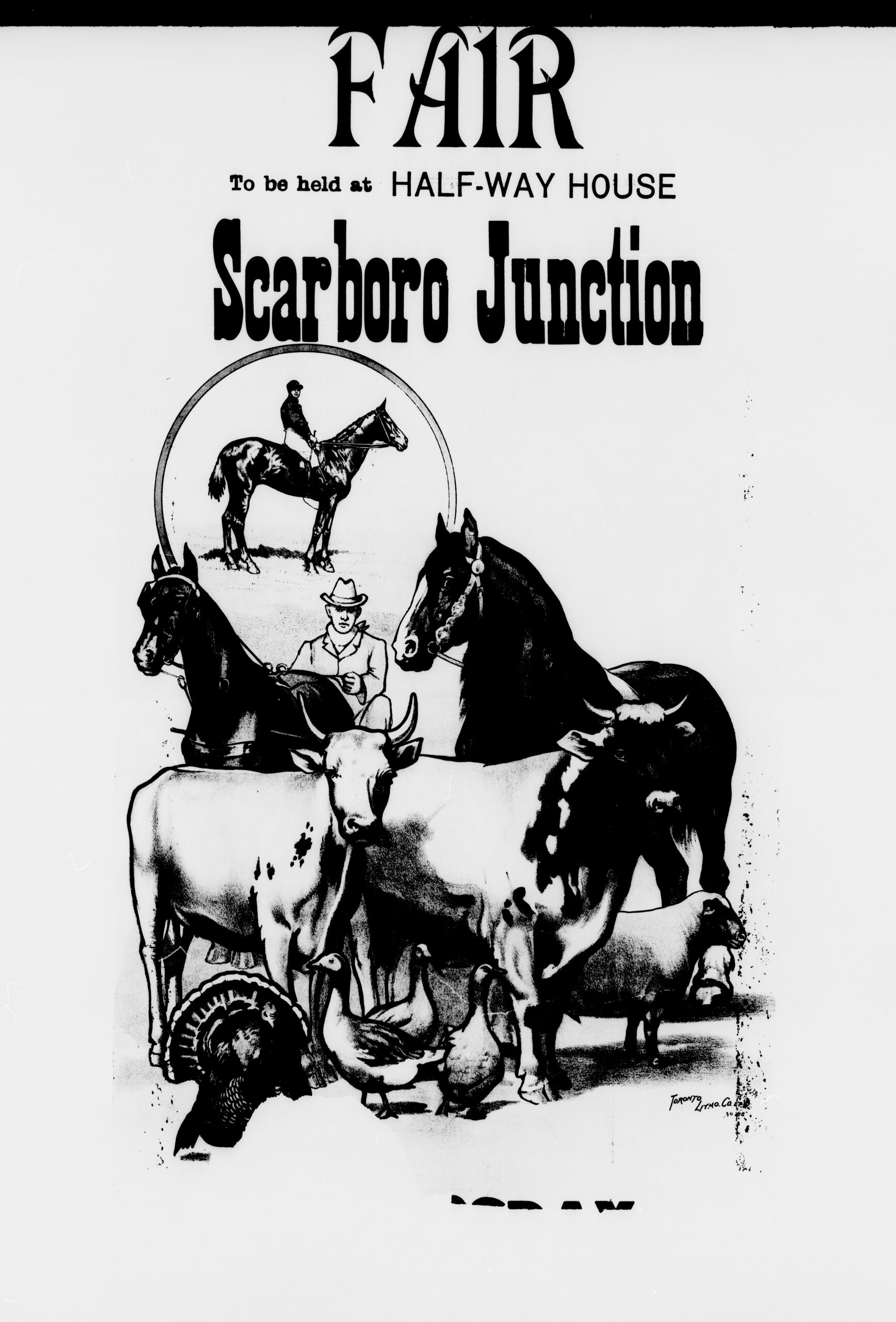 Second page of a two-page advertisement for Scarboro Fair, held in Scarborough, Ontario, Canada, in 1900